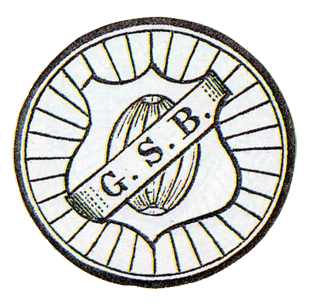 Grupo Sport Benfica, founded in 26/07/1906.